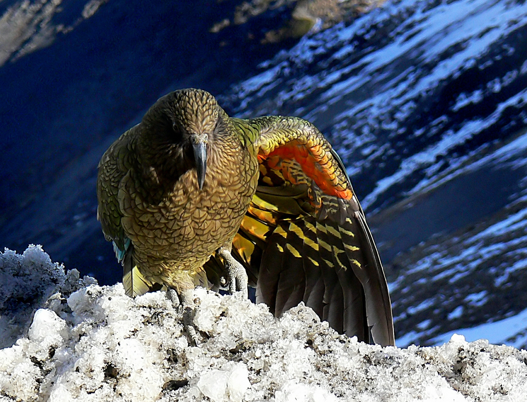 Kea on the snow mountains in New Zealand